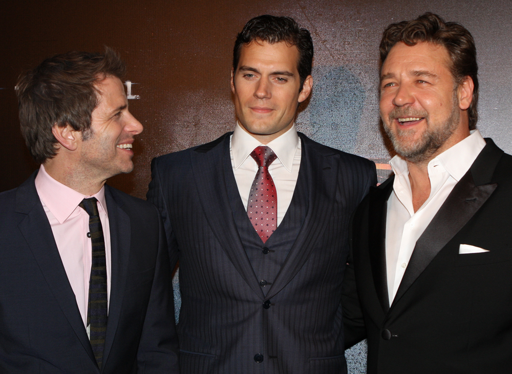 Zack Snyder, Henry Cavill and Russell Crowe at Man Of Steel red carpet movie premiere, Sydney